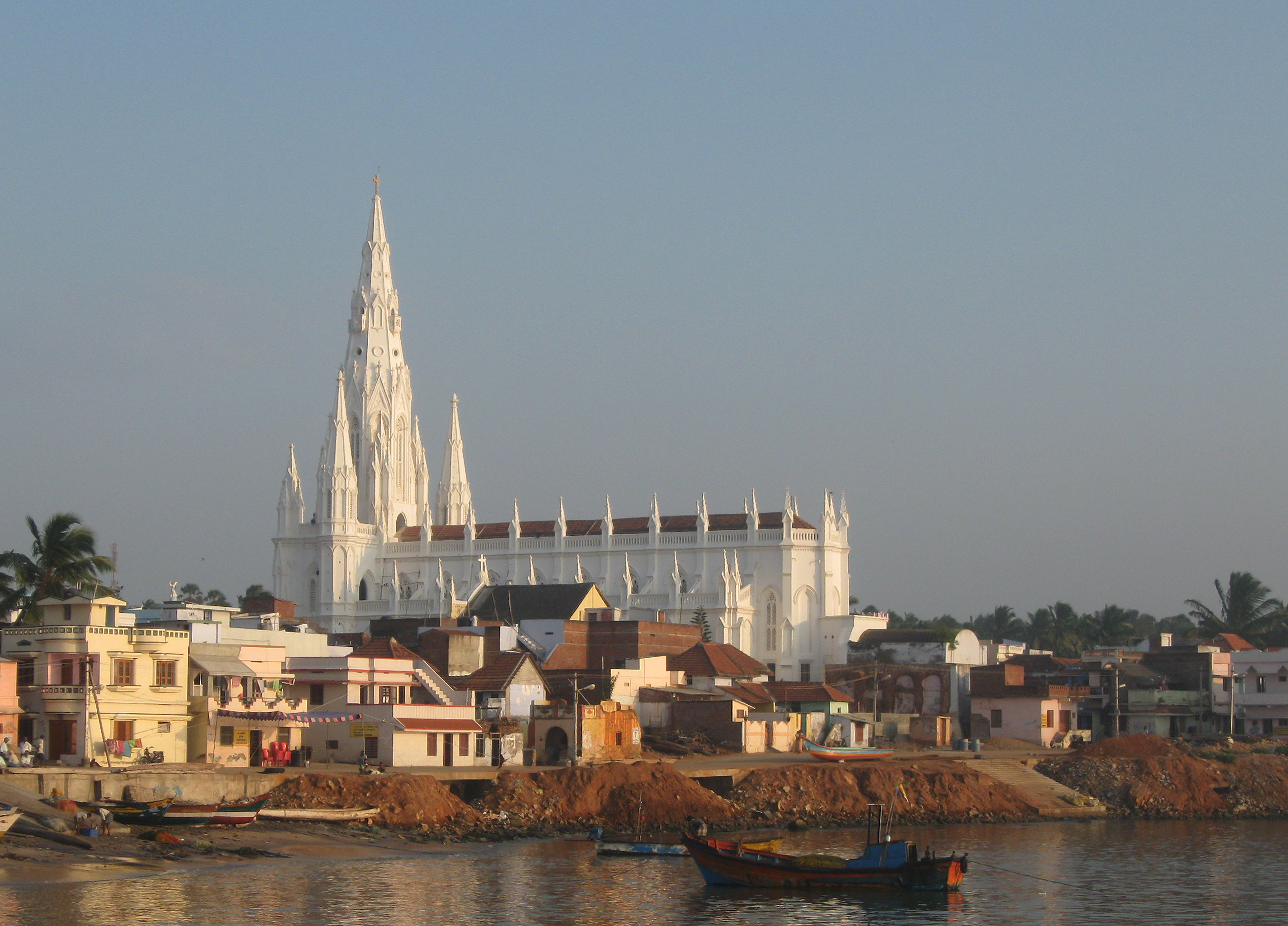 Our Lady of Ransom Church in Kanyakumari as seen from South